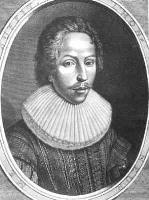 William of Nassau LaLecq (1601-1627), bastard son of Prince Maurice